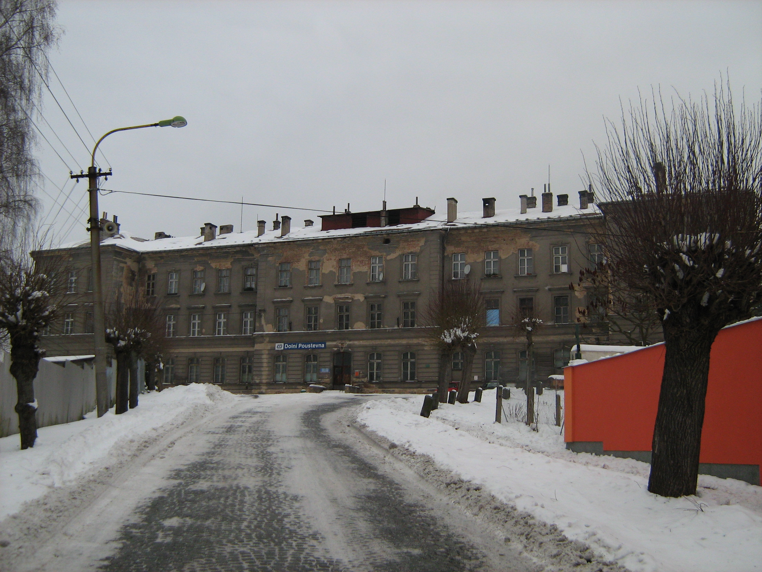 Train station of Dolní Poustevna as seen from the front